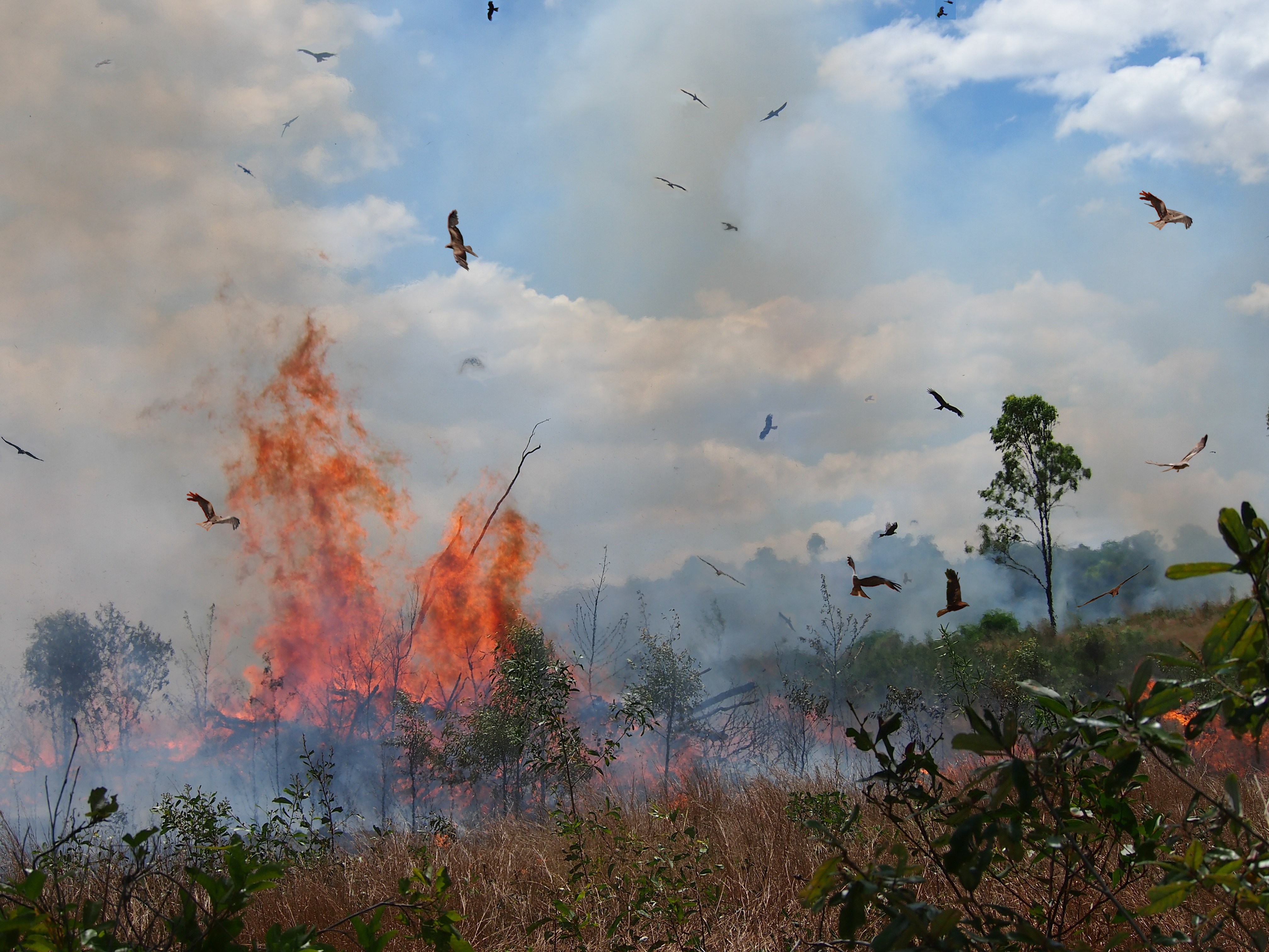 Hawks hunting in and around a controlled brushfire, Mount Etna Caves National Park, Central Queensland. The birds are a mixture of Black Kites Milvus migrans and Whistling Kites Haliastur sphenurus